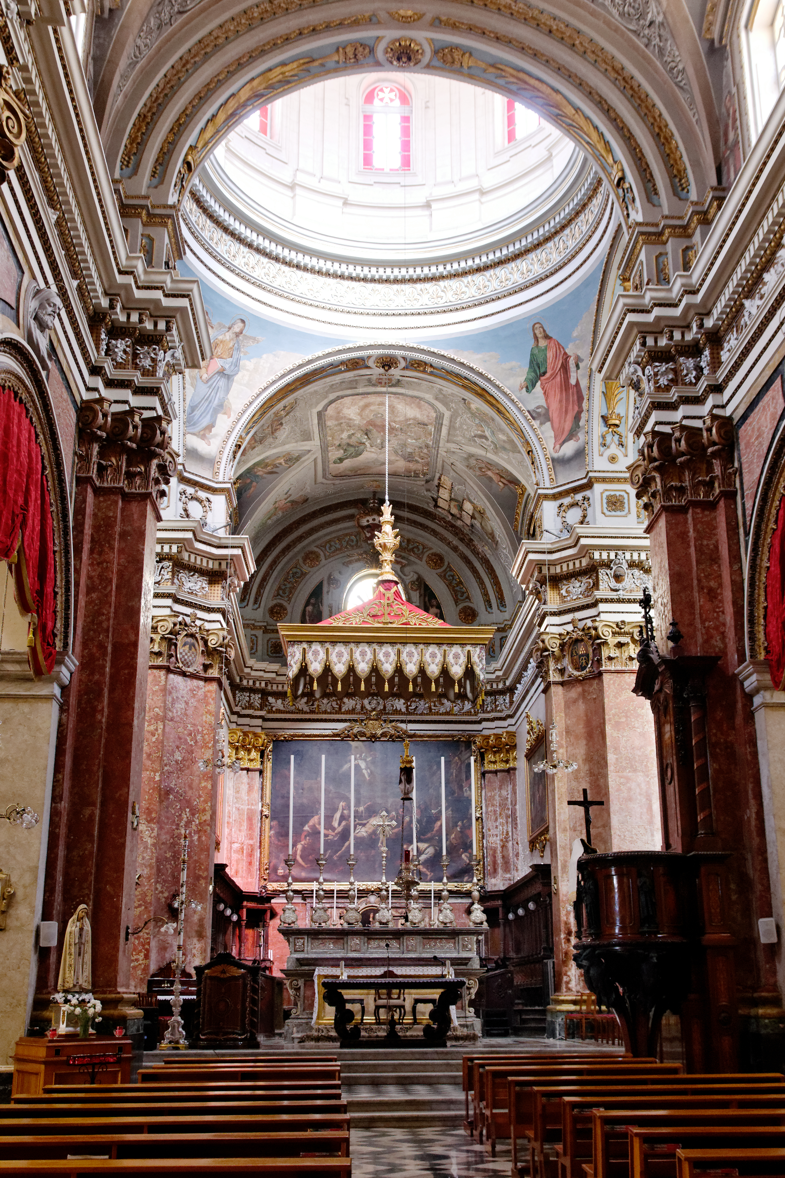 Interior of St Lawrence's Church, Vittoriosa, Malta.